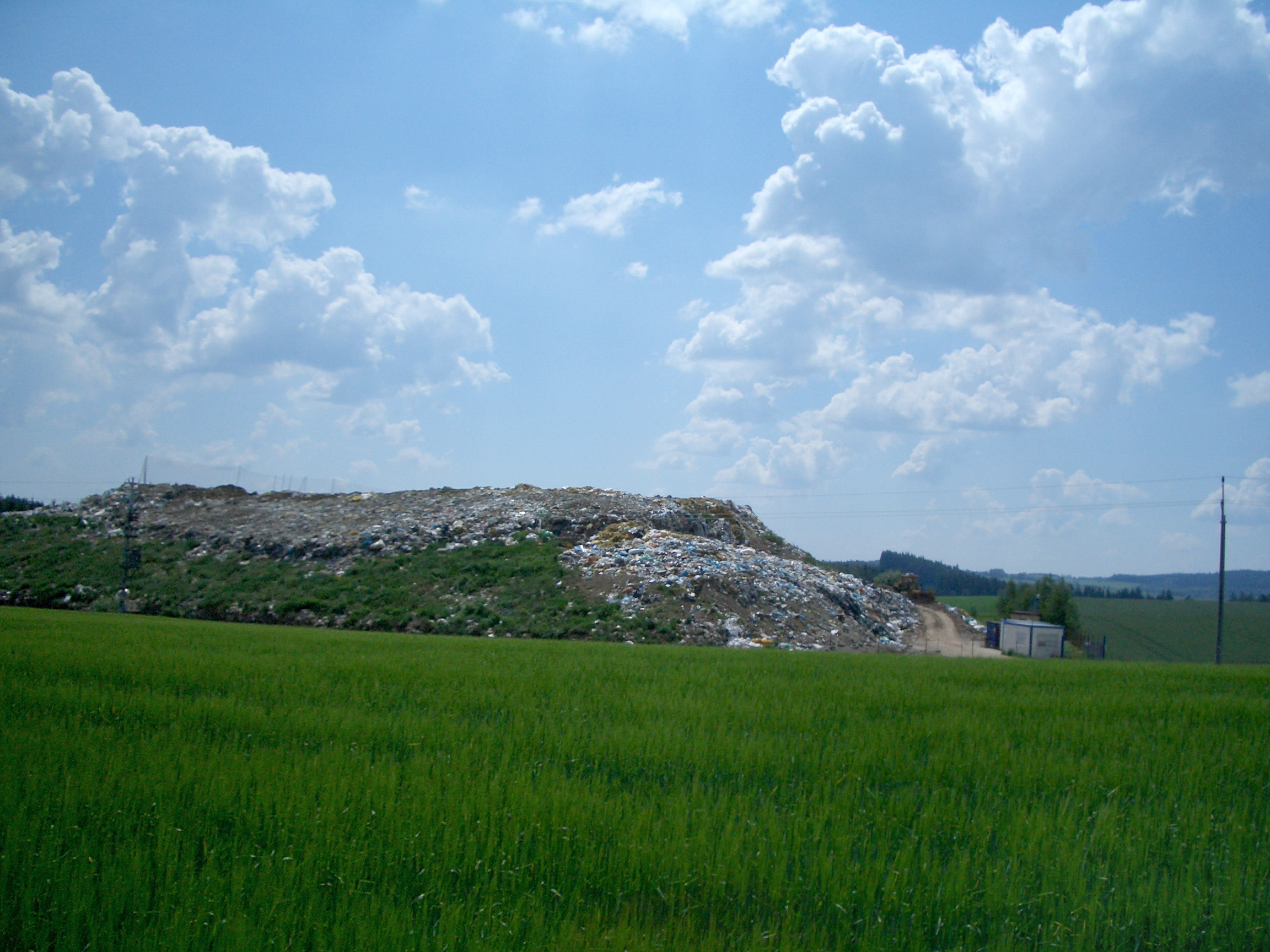 Vyskytná nad Jihlavou – problematic landfill